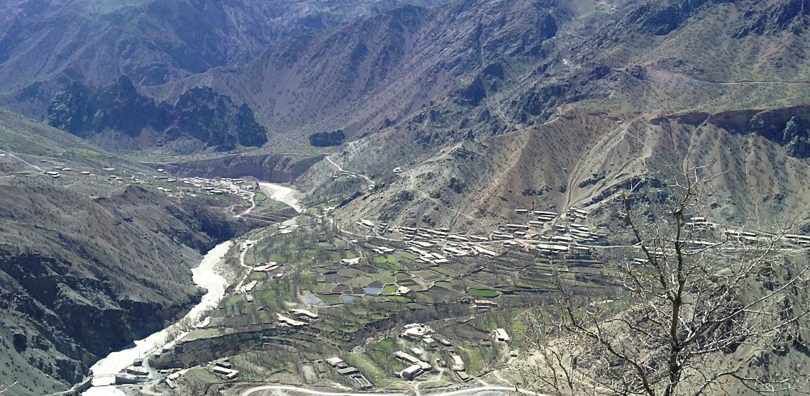 Rice farm in Aligudarz(baznavid)